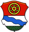 Coat of Arms of Faulbach